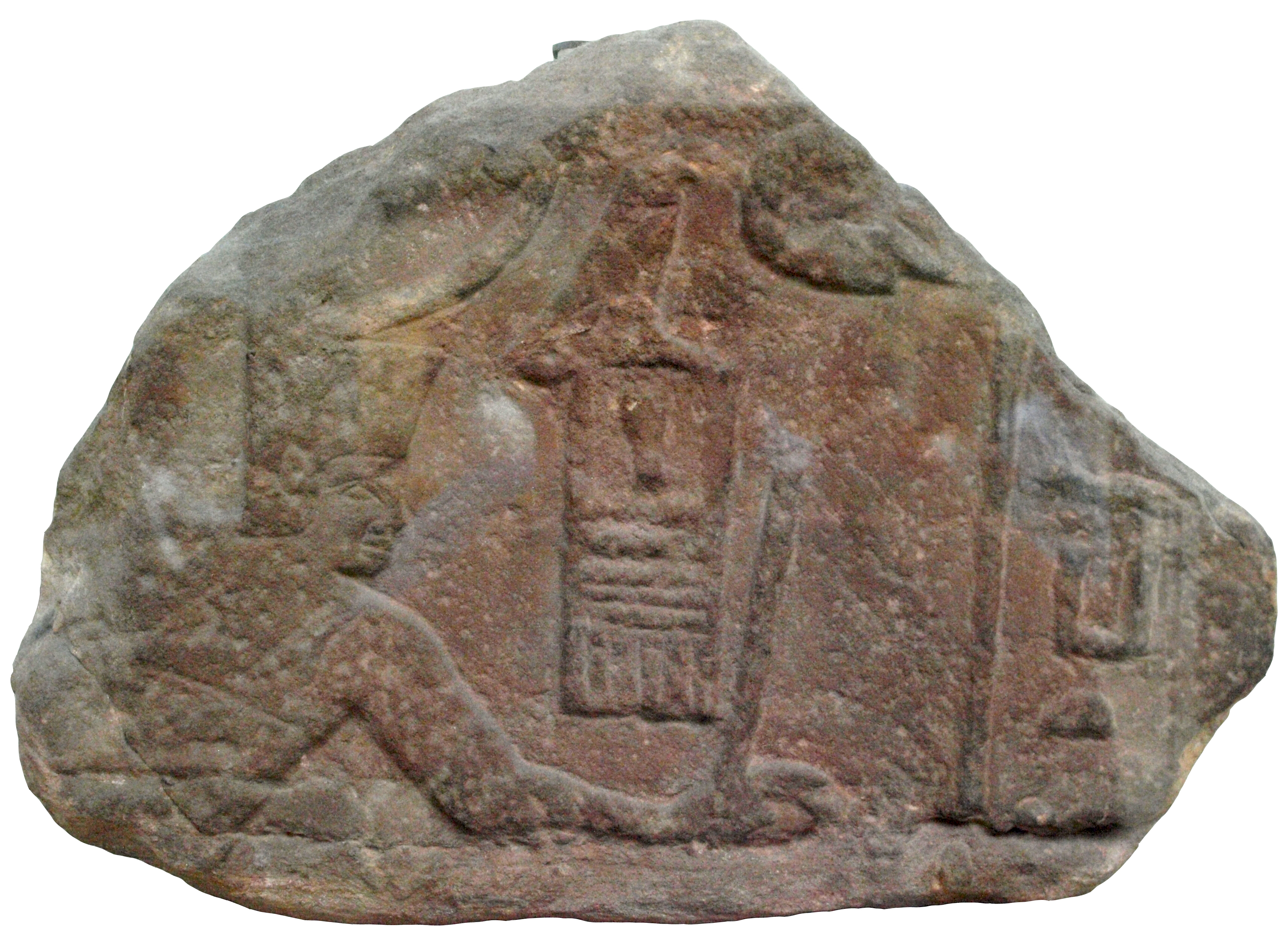 Relief fragment of pharaoh Sanakht, third dynasty, circa 2670 BC. Sanakht is shown in the pose of smiting an enemy. Originally from Serabit in the Sinai, EA 691. (From Pharaoh Sanakhte's article, reign: 2686-2667 BC. His name in the serekh appears to be: Sa(?)-n-nakht-th, composed of 4 hieroglyphs.)